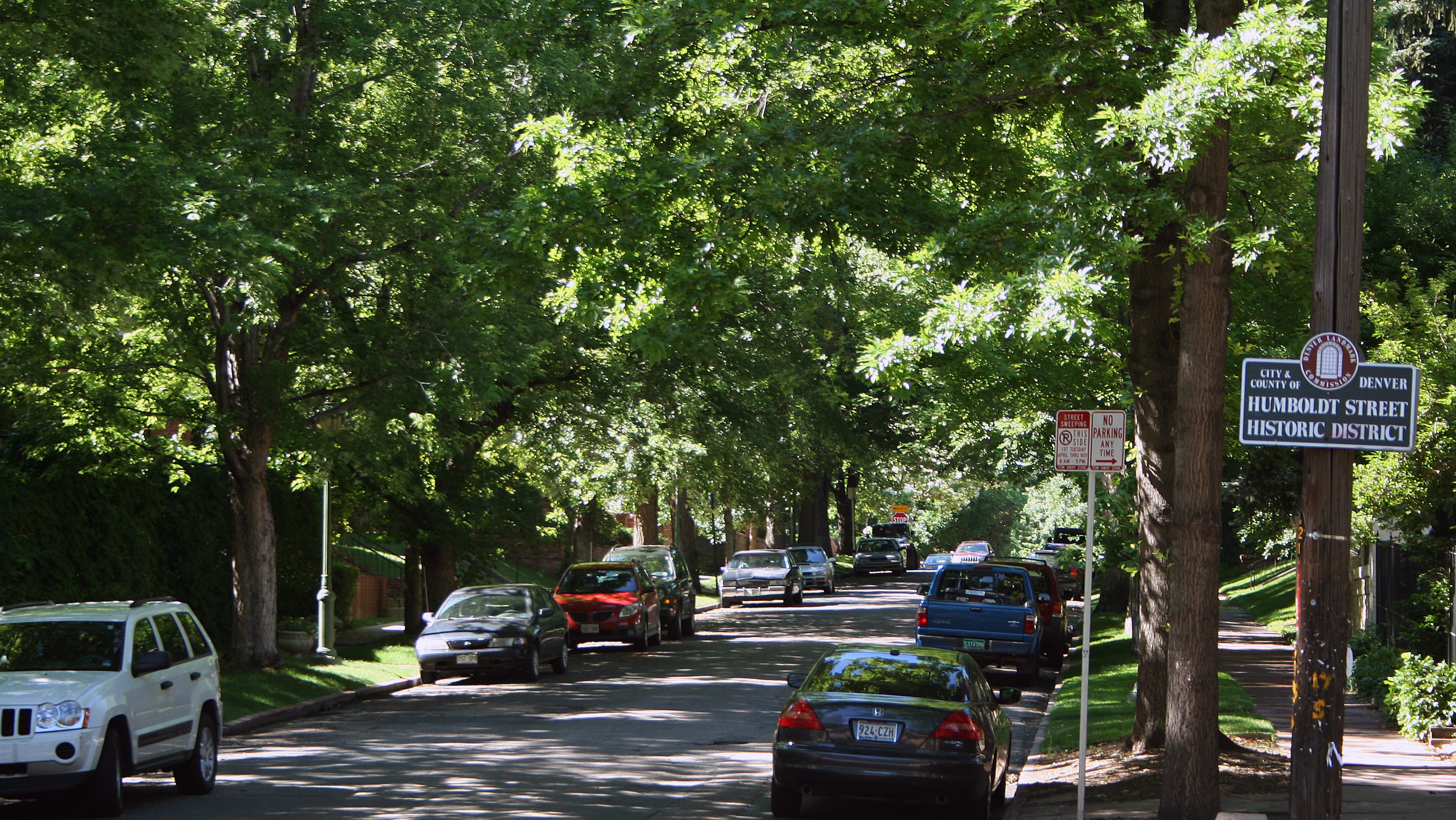 The Humboldt Street Historic District, located on Humboldt Street between 10th and 12th avenues in Denver, Colorado.